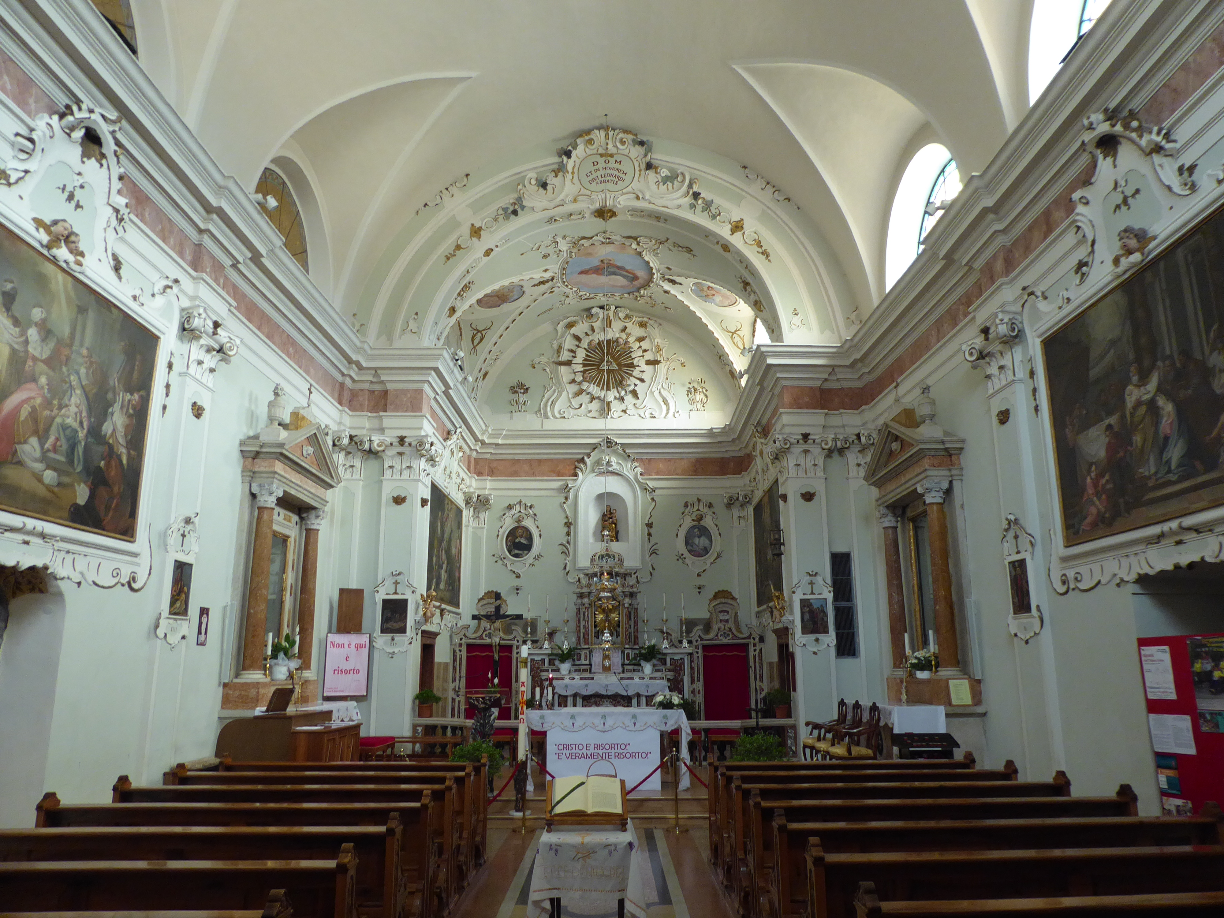 Vigolo Baselga (Trento, Italy) - Saint Leonard church - Interior